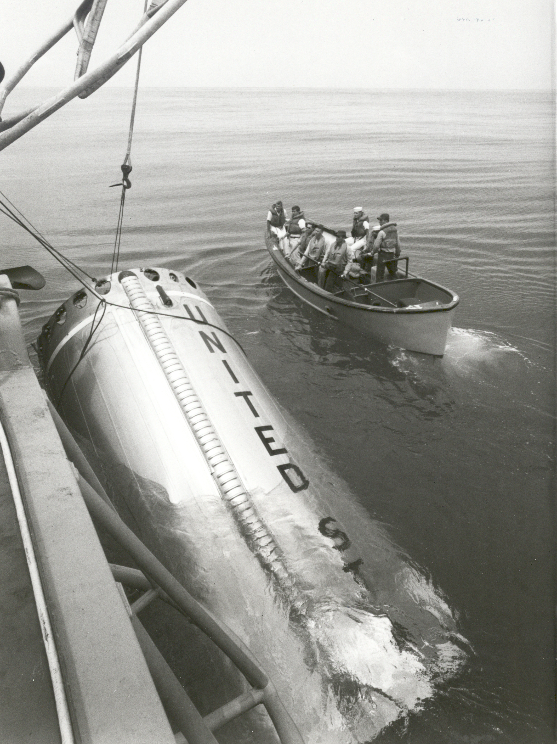 Recovery of part of the first stage of NASA’s Gemini V Booster, the first to ever be retrieved from space was made by the U.S.S. Dupont. The booster was used to launch the Gemini VSpacecraft from Cape Kennedy, Florida, and re-entered the earth's atmosphere 450 miles N.E. of Cape Kennedy.